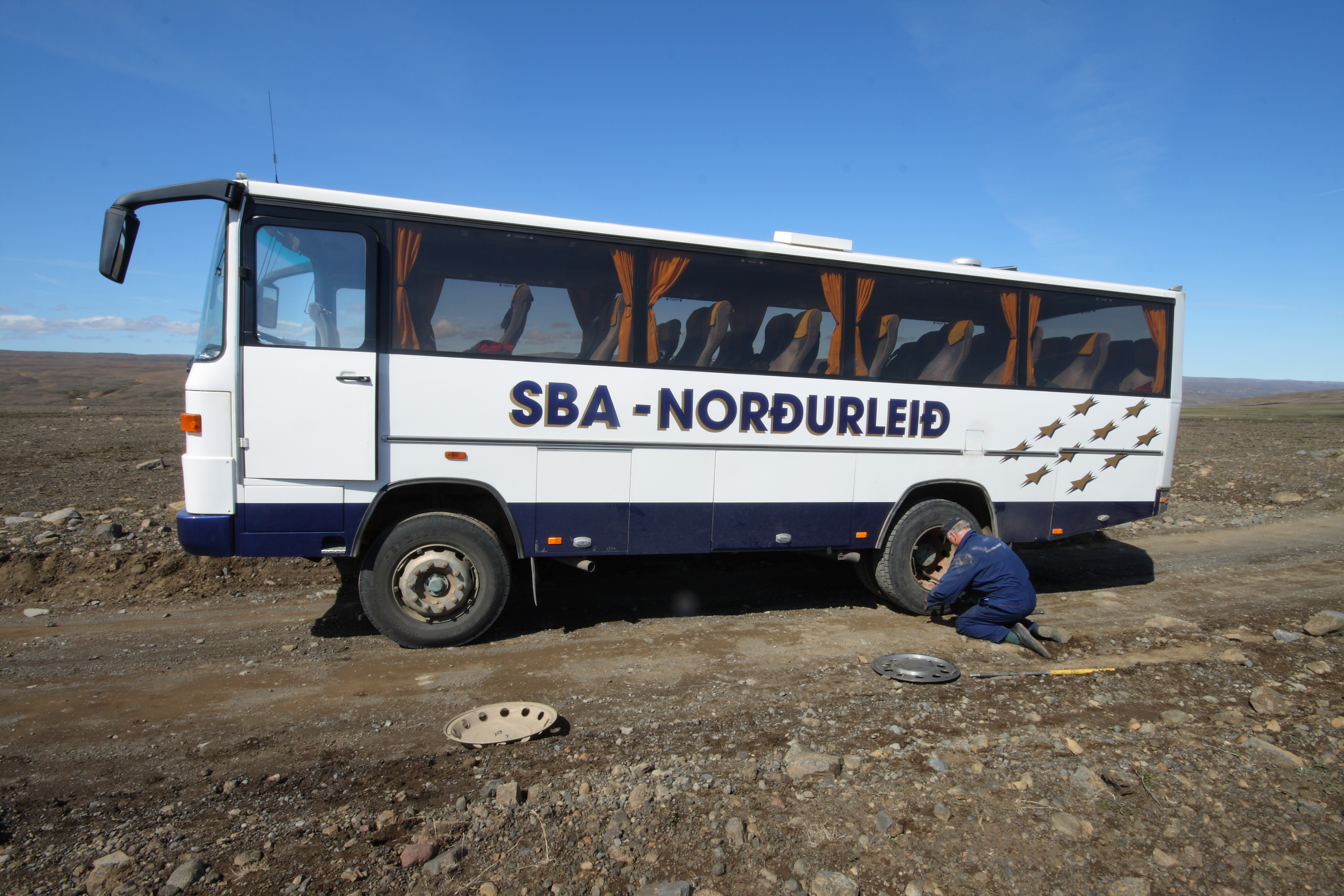 This is in the middle of nowhere. Probably 50km from the nearest building. The bus pulled over to the side of the road and I looked out the window expecting to see a car pass. Instead I saw a wheel go past, down the road for a bit and come to rest at the roadside. Another passenger (Harold, a big german guy) and I went to the wheel, and found six wheelnuts trapped by the wheeltrim. Unfortunately the wheel was supposed to have ten. While Harold and the driver put the wheel back on, everyone else searched the road for the missing nuts. Someone found one, but we had to finish the journey with one nut removed from each front wheel to make up numbers at the back.